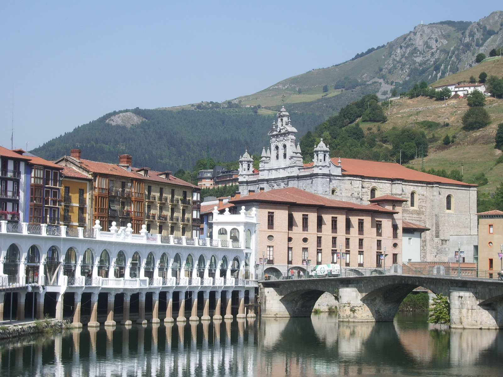 View of Tolosa and river Oria, Guipuscoa, Basque Country, Spain